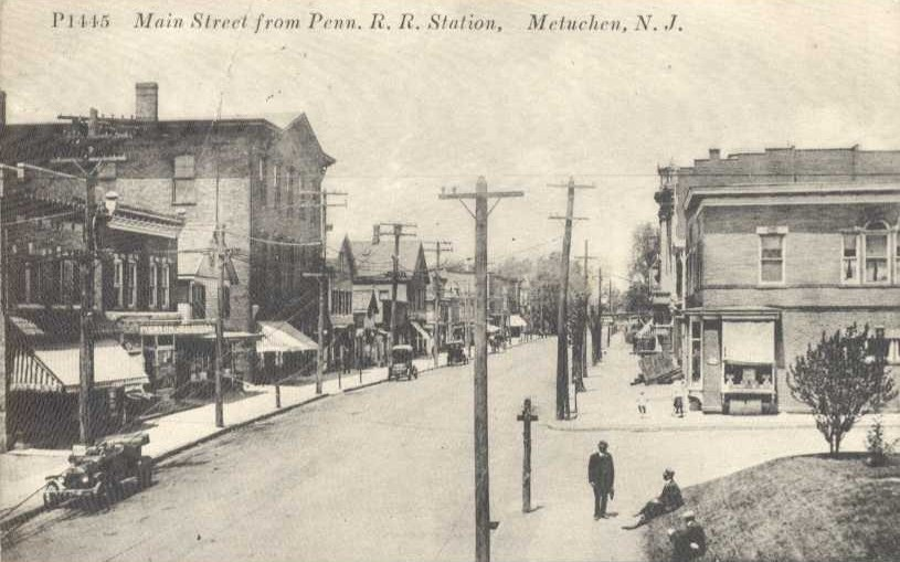 Postcard picture of Main Street from "Penn" Railroad Station in Metuchen, New Jersey, from 1911